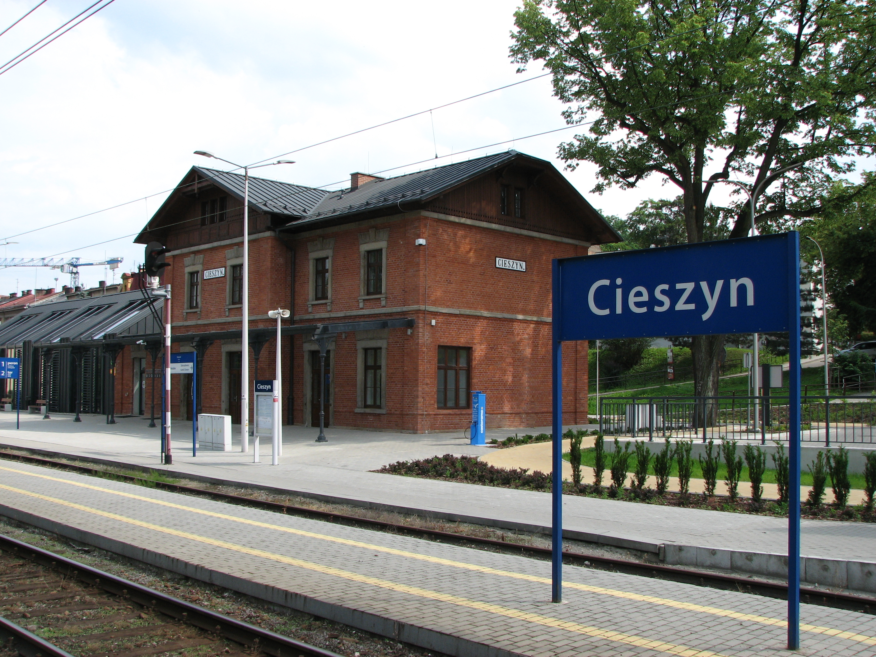 Bus and train station in Cieszyn, May 2018.